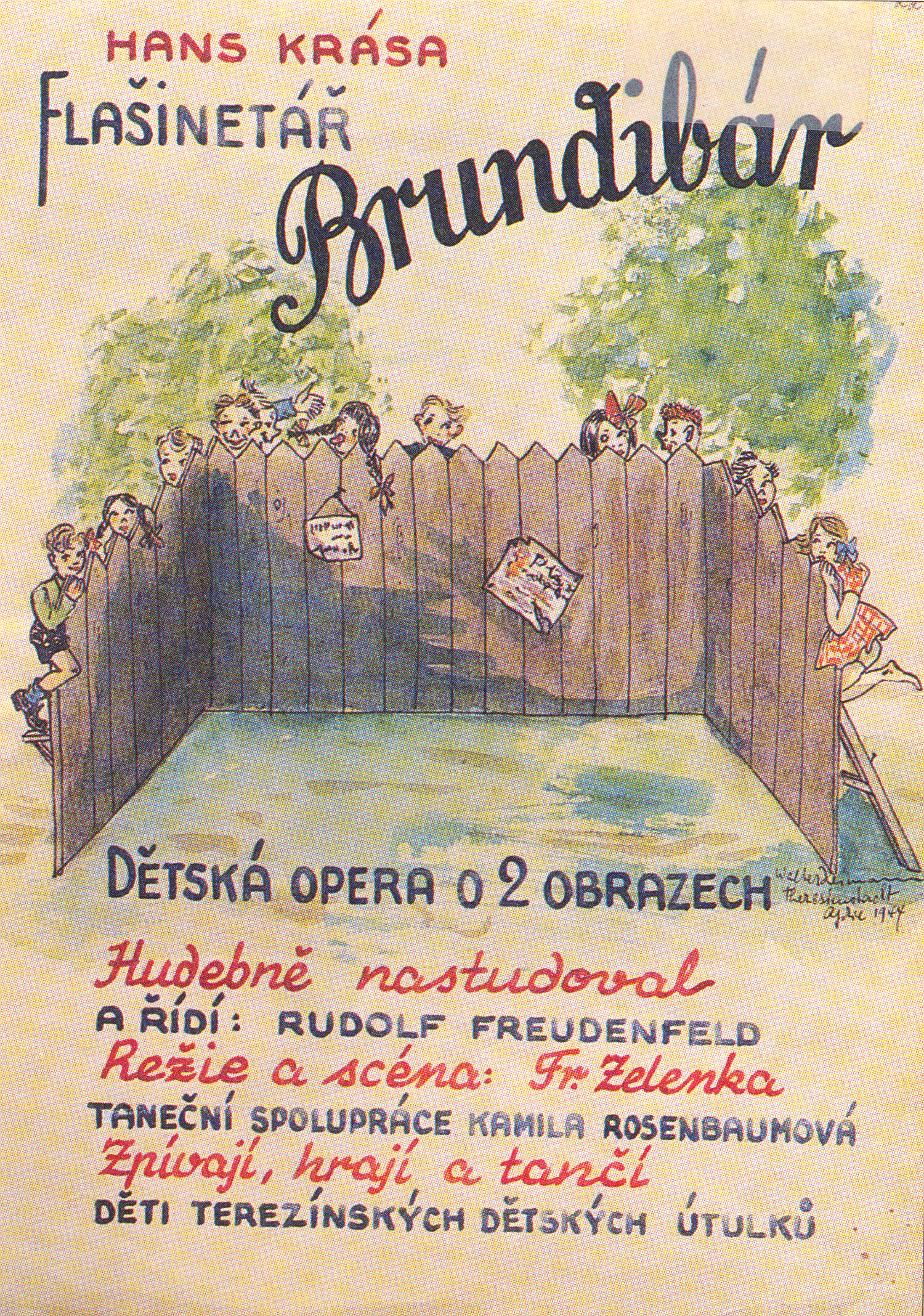 Poster for Brundibar at Theresienstadt, in watercolor.